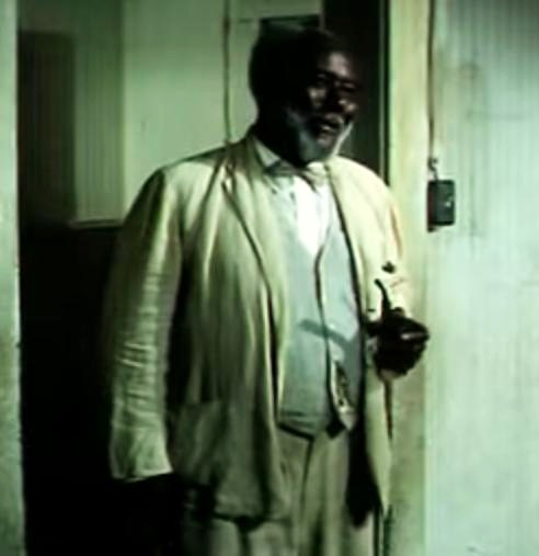 Rex Ingram in Hurry Sundown - trailer (cropped screenshot)